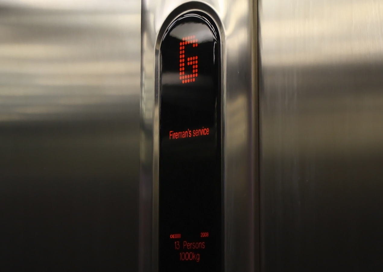 A KONE Ecodisc elevator in Glasgow after a fire alarm has been activated, causing the lift to enter Fireman's Mode.